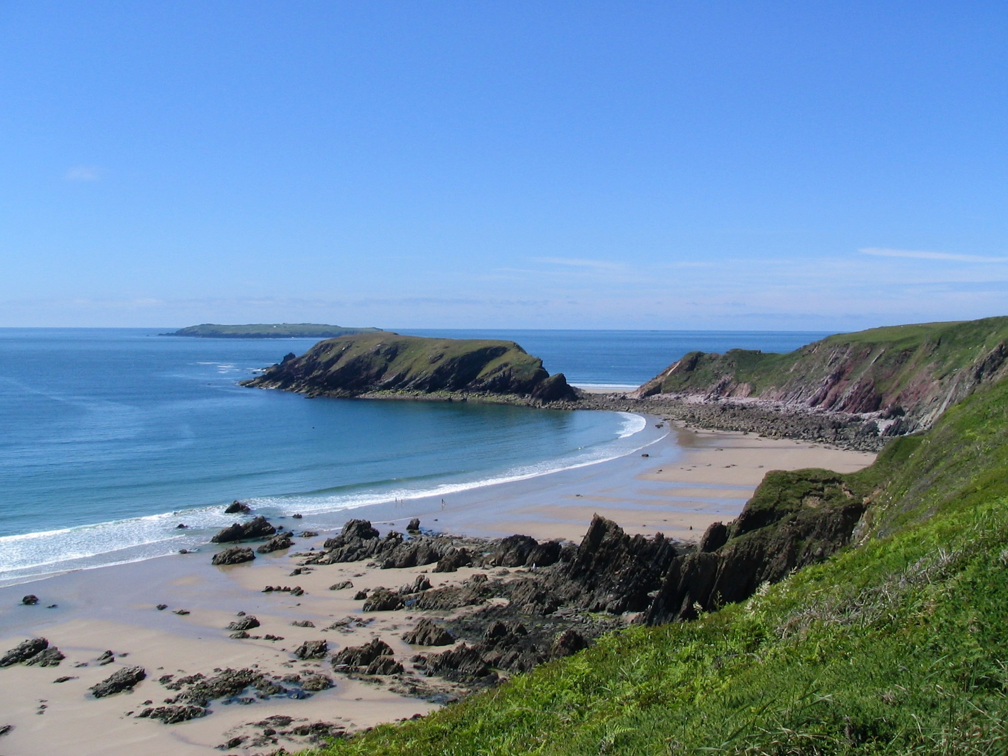 Gateholm tidal peninsula, Southwest Wales